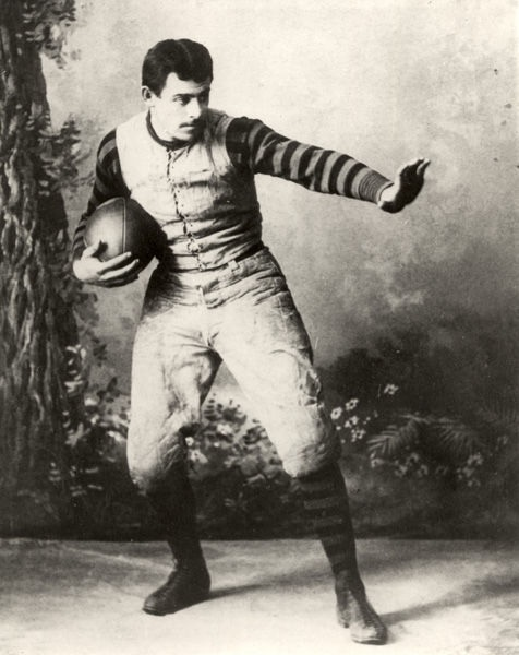 John Heisman posing as football player while at Penn, 1891.